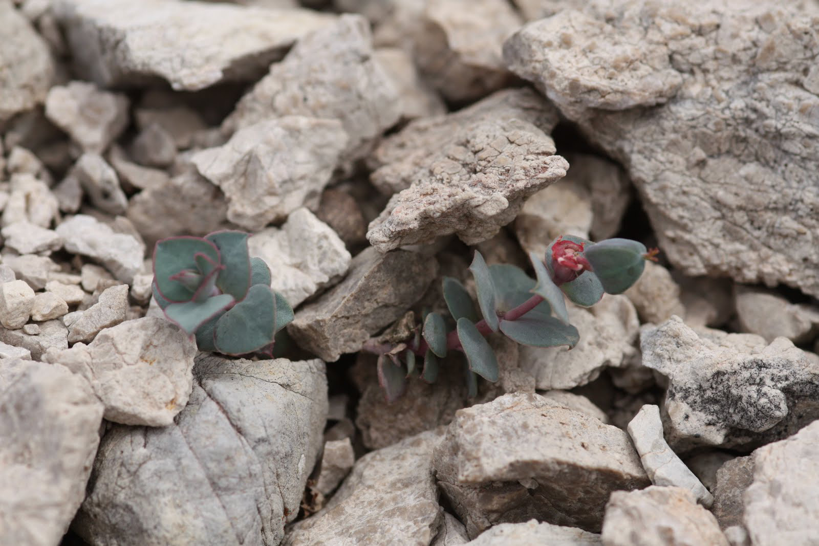 Euphorbia fontqueriana